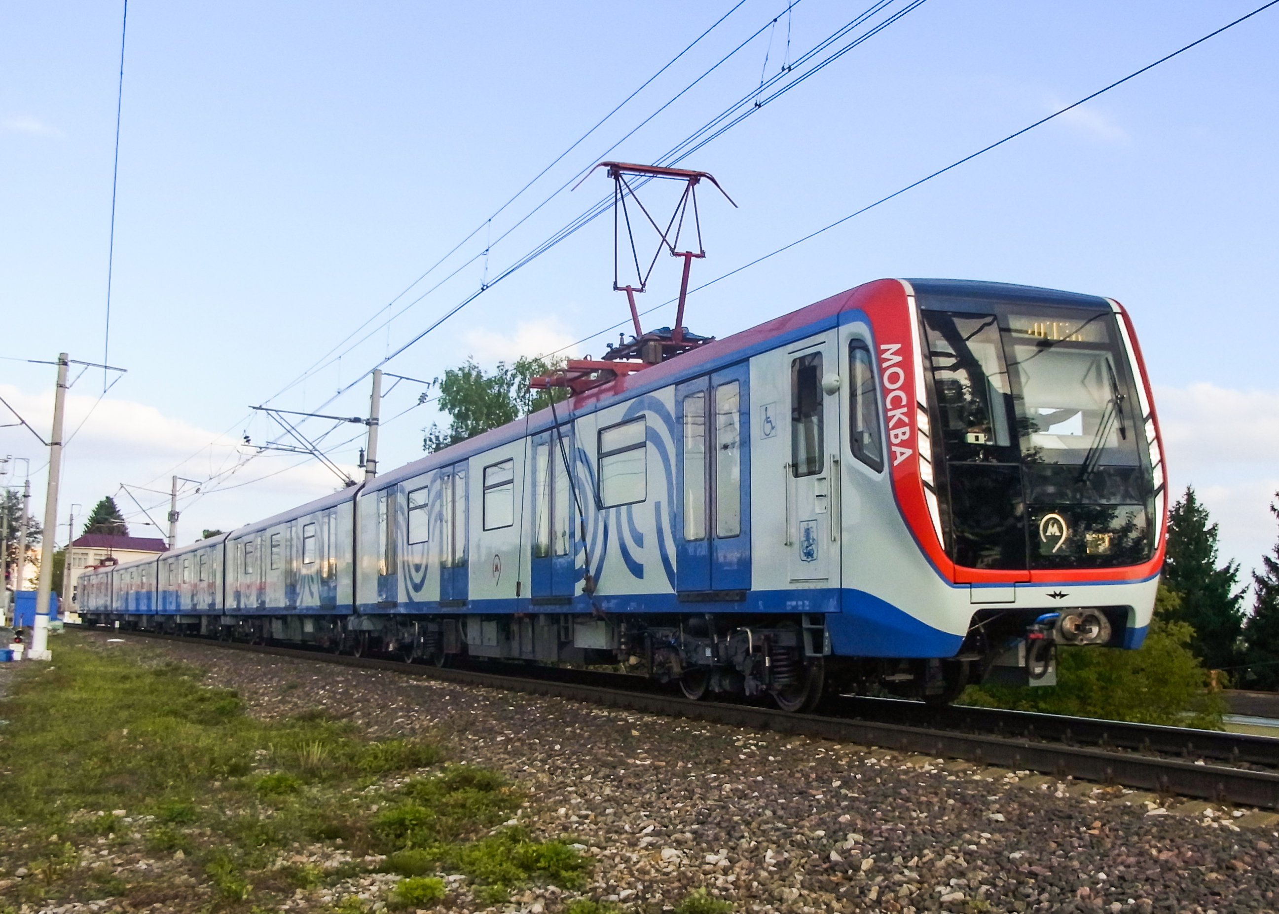 Subway electric train 81-765 «Moscow» at train parade during Expo 1520 railway exhibition in 2017 on railway test circuit in Shcherbinka, Moscow, Russia